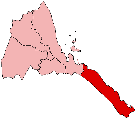 Map of Eritrea showing the Southern Red Sea Region; created with the GIMP. Made by User:Acntx